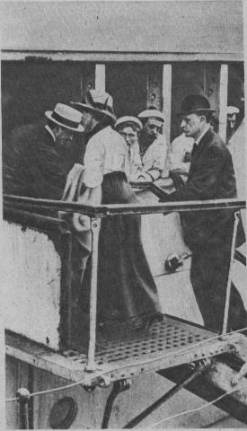 tiré du journal "Le Miroir".